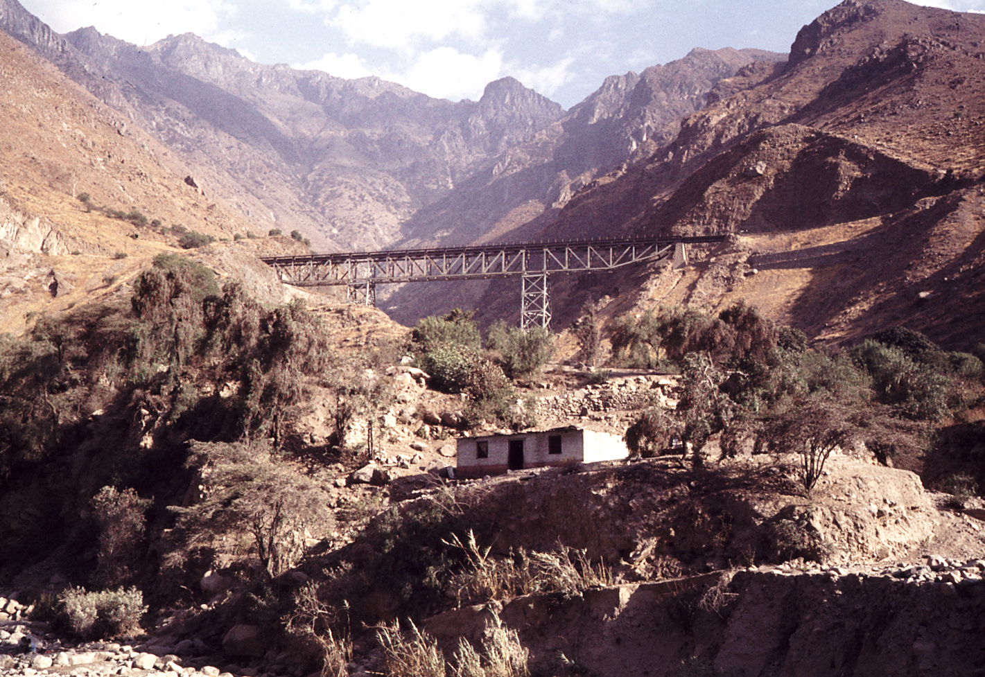 One of the steel bridges on the Central Railroad. Location near Matucana, Perú.